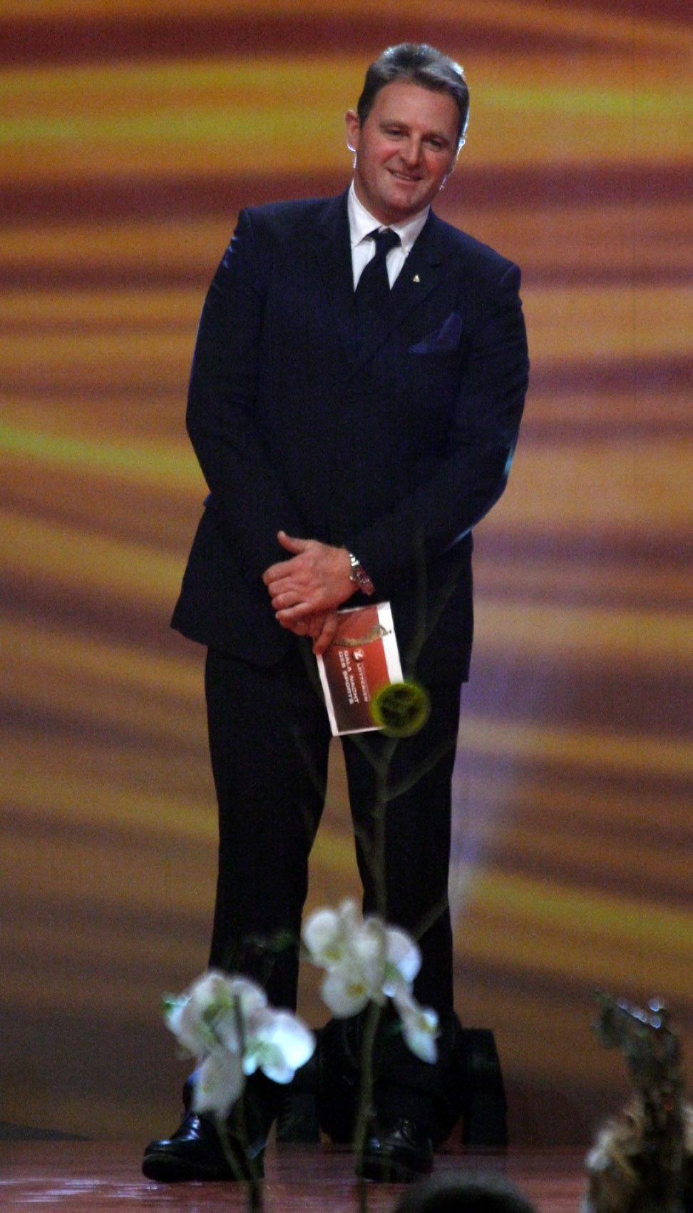 Patrick Ortlieb at the presentation of the Austrian Sportspersonalities of the Year 2010 (Eventhotel Pyramide in Vösendorf, Lower Austria).